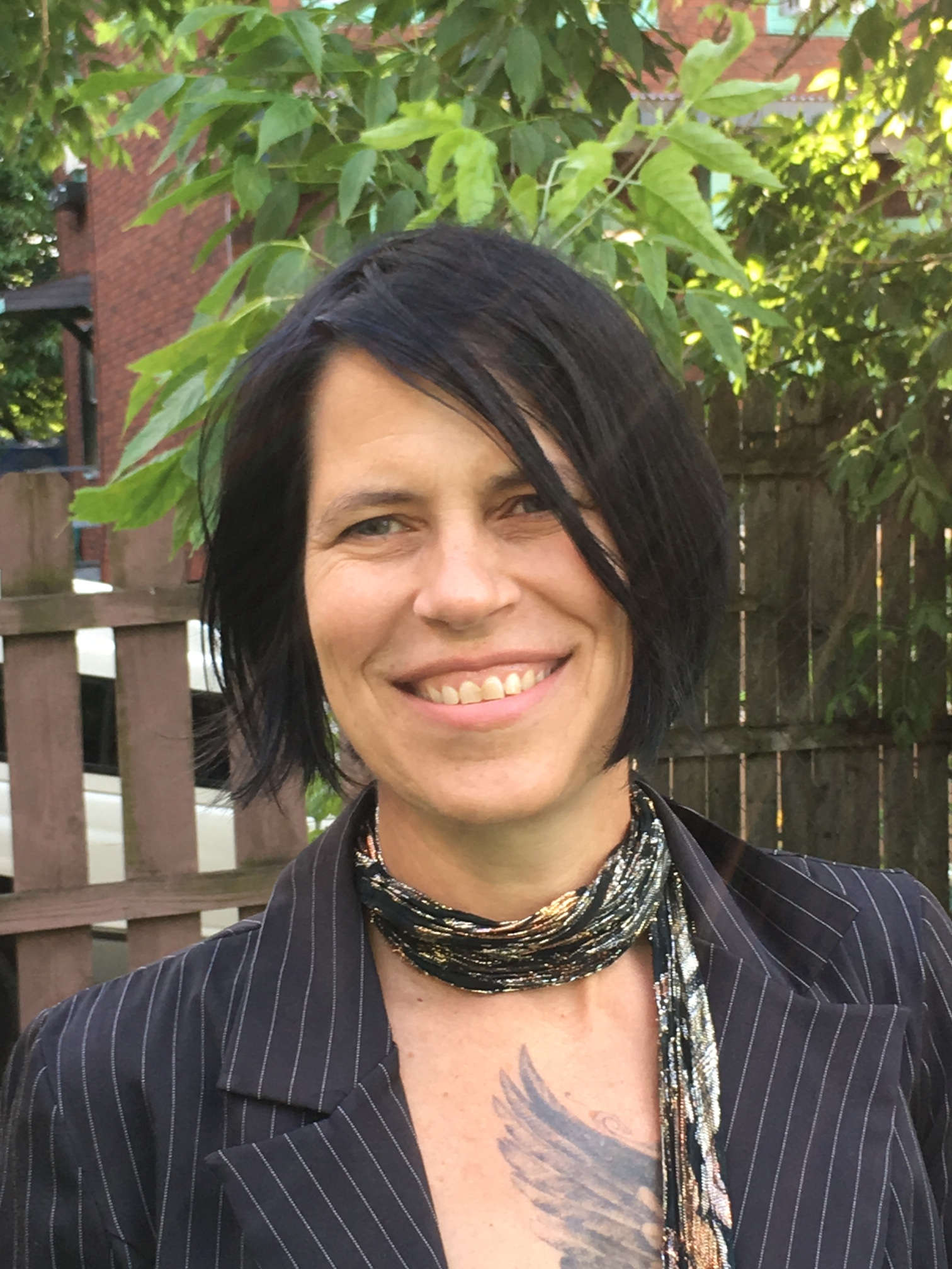 Photo of Cindy Crabb taken by Sarah Danforth, licensed with her permission.